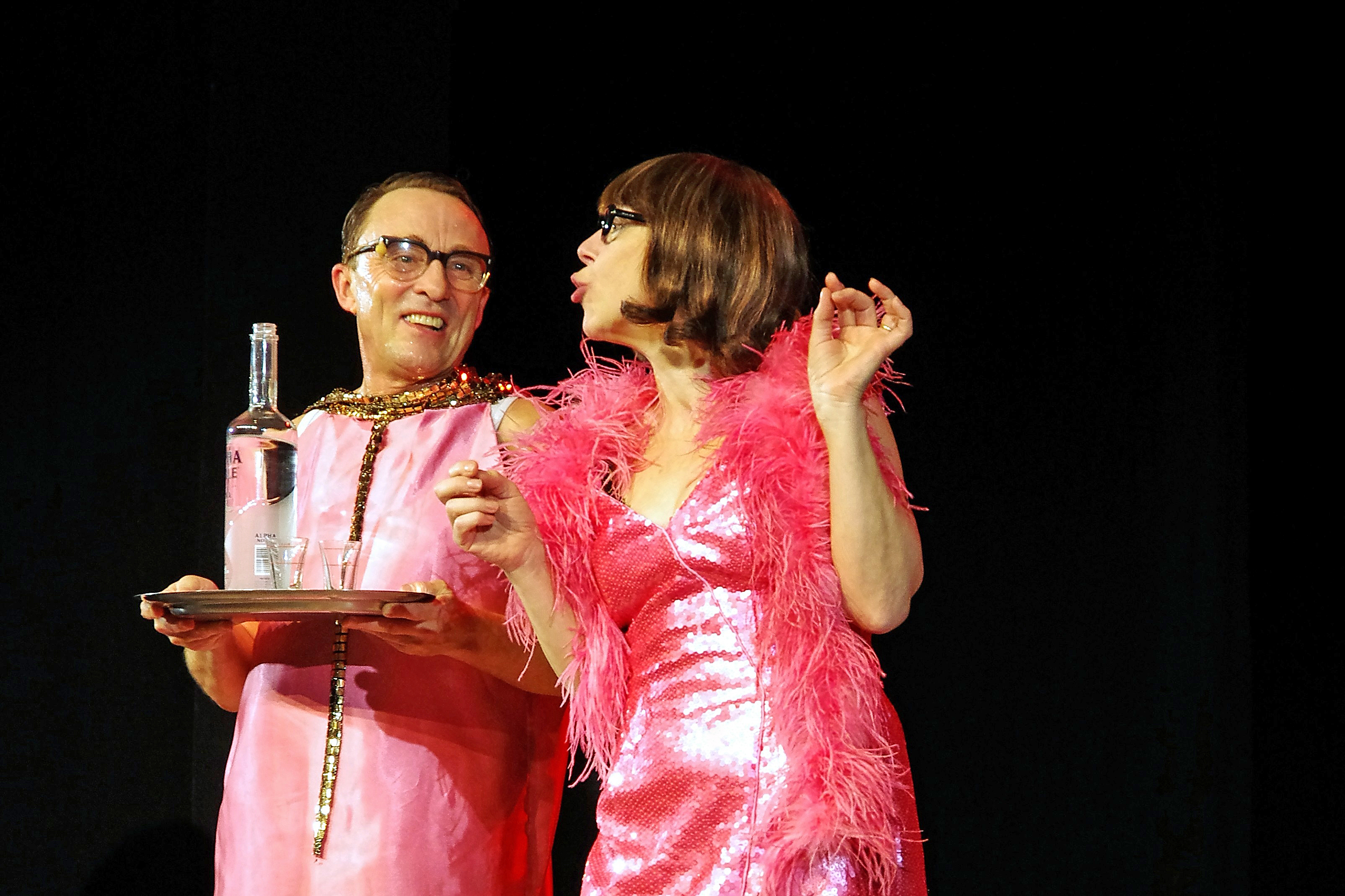 Krissie Illing and Mark Britton in their Nickelodeon show "Costa del Love"